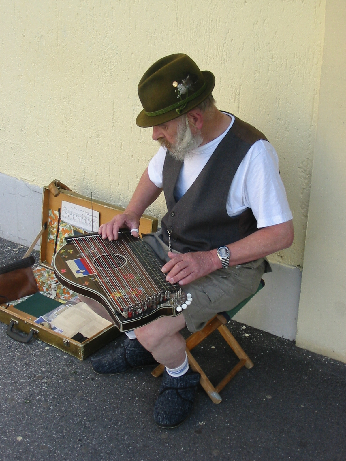 Citrar / Zither player